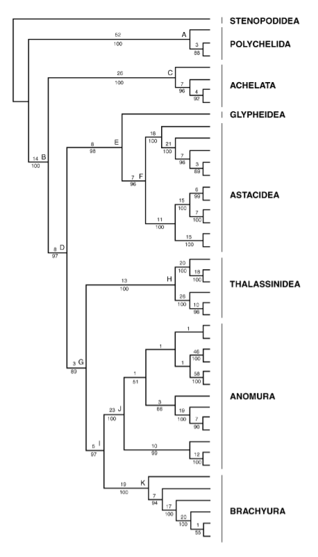 Decapoda philogeny